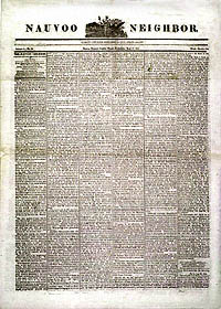 Front page of the Nauvoo Neighbor, originally published in 1845 in Nauvoo, Illinois.